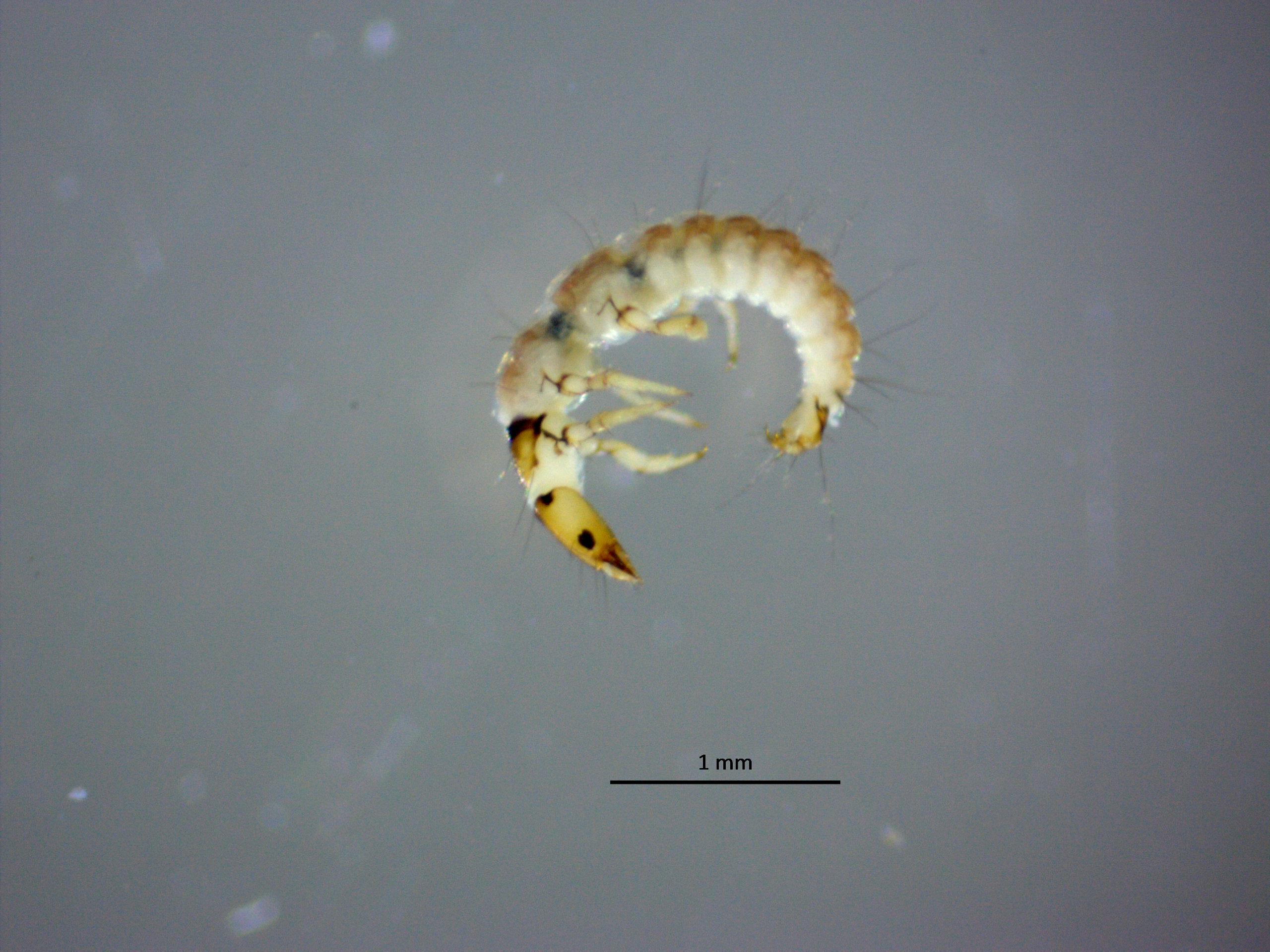 Psychomyia pusilla larva from Toplodolska river (SE Serbia). Српски (ћирилица): Ларва Psychomyia pusilla из Топлодолске реке (општина Сурдулица, ЈИ Србија).